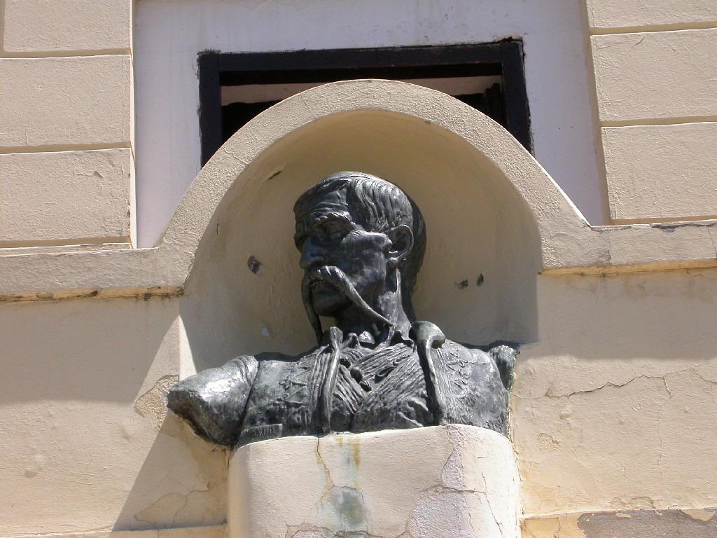 Monument of governor Stevan Sinđelić- Čegar